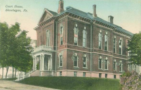 Somerset County Superior Court, Skowhegan, Maine. The building was erected by Abner Coburn and presented to Somerset County as an inducement to move the county seat from Norridgewock to Skowhegan in 1871.